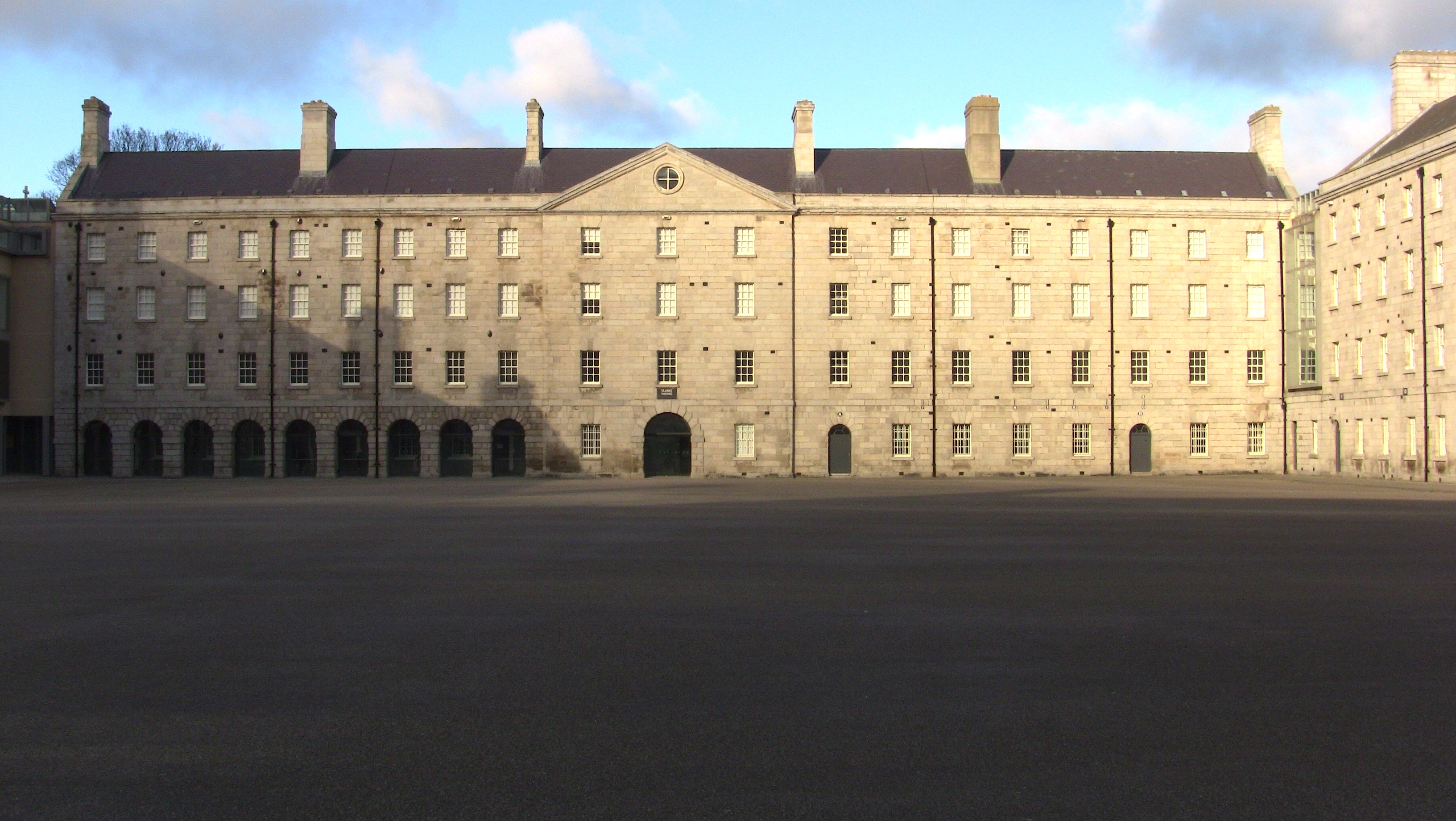 To celebrate the Chinese New Year: the year of the Tiger, the National Museum of Ireland in conjunction with The Chinese Chiu Chung Lung Ying Academy, will be hosting a weekend of activities at Collins Barracks on January 30th and 31st. People of all ages can experience the ancient and exotic cultures of Asia and be captivated by a different world through exhibition talks, tours, art workshops, dragon dancing, meditation and music performances.